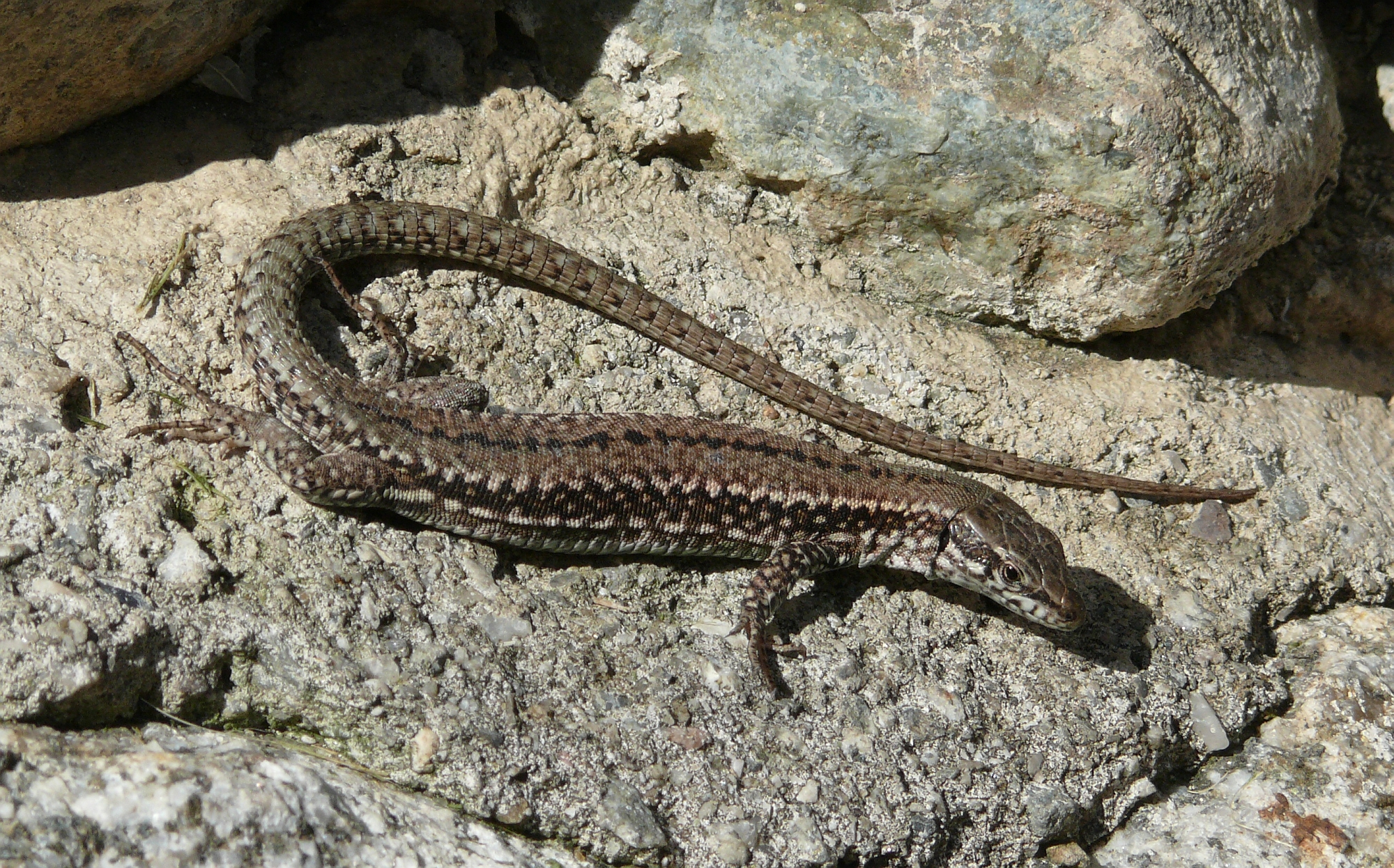 Podarcis muralis, Pustertal, Italy